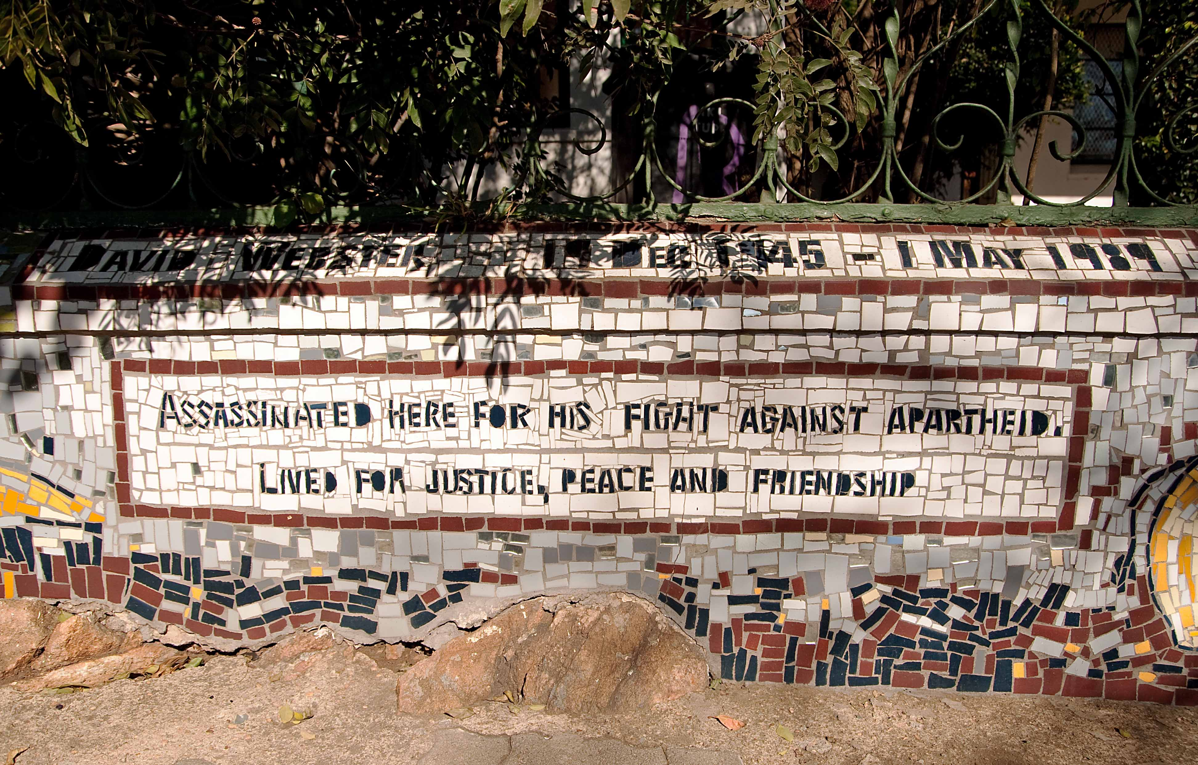 Anti-Apartheid activist David Webster was assassinated by CCB hit-man Ferdi Barnard here, in front of his home in Troyeville on 1 May 1989. His partner Maggie Friedman did these mosaics in front of the house ten years after his death. A colourful monument to a man who lived his life for justice, peace and friendship.